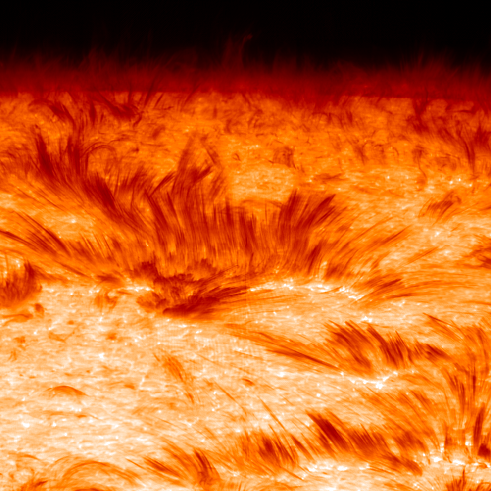 This image was observed with the SOUP instrument at the Swedish 1-meter Solar Telescope (SST) on La Palma (Spain) and shows spicules close to the solar limb. Spicules are thin, elongated jets of a few hundred kilometers wide. They reach up to 6000 km height and can move at speeds of more than 100 km/s. Spicules are found all over the solar surface, but can be observed most easily near the limb of the Sun.The image is taken at a Doppler offset of +0.07 nm in the red wing of the H-alpha spectral line. Instrument: Swedish 1-m Solar Telescope / Solar Optical Universal Polarimeter (SOUP) / wavelength: H-alpha red wing (656.30 + 0.07 nm) Observation and data reduction : Oystein Langangen and Luc Rouppe van der Voort (University of Oslo, Norway)